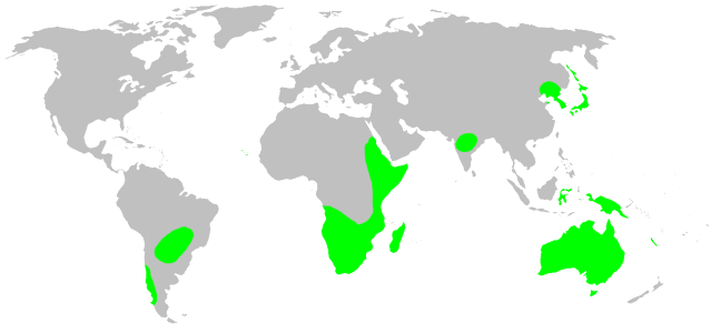 Trochanteriidae habitat distribution, drawn after Platnick: World Spider Catalog 7.0. This is not at all a precise rendering of the distribution! If you have better information, please replace this map, or send me the info, and i will redraw it.